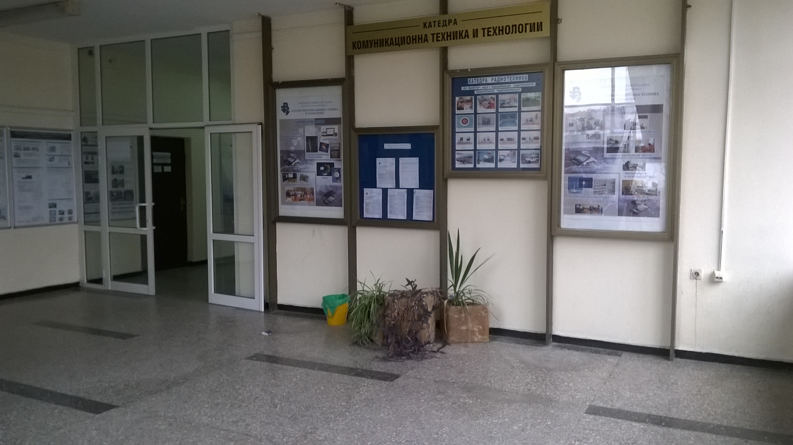 Technnical University in Varna